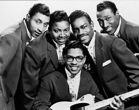 Photo of the musical group The Moonglows.